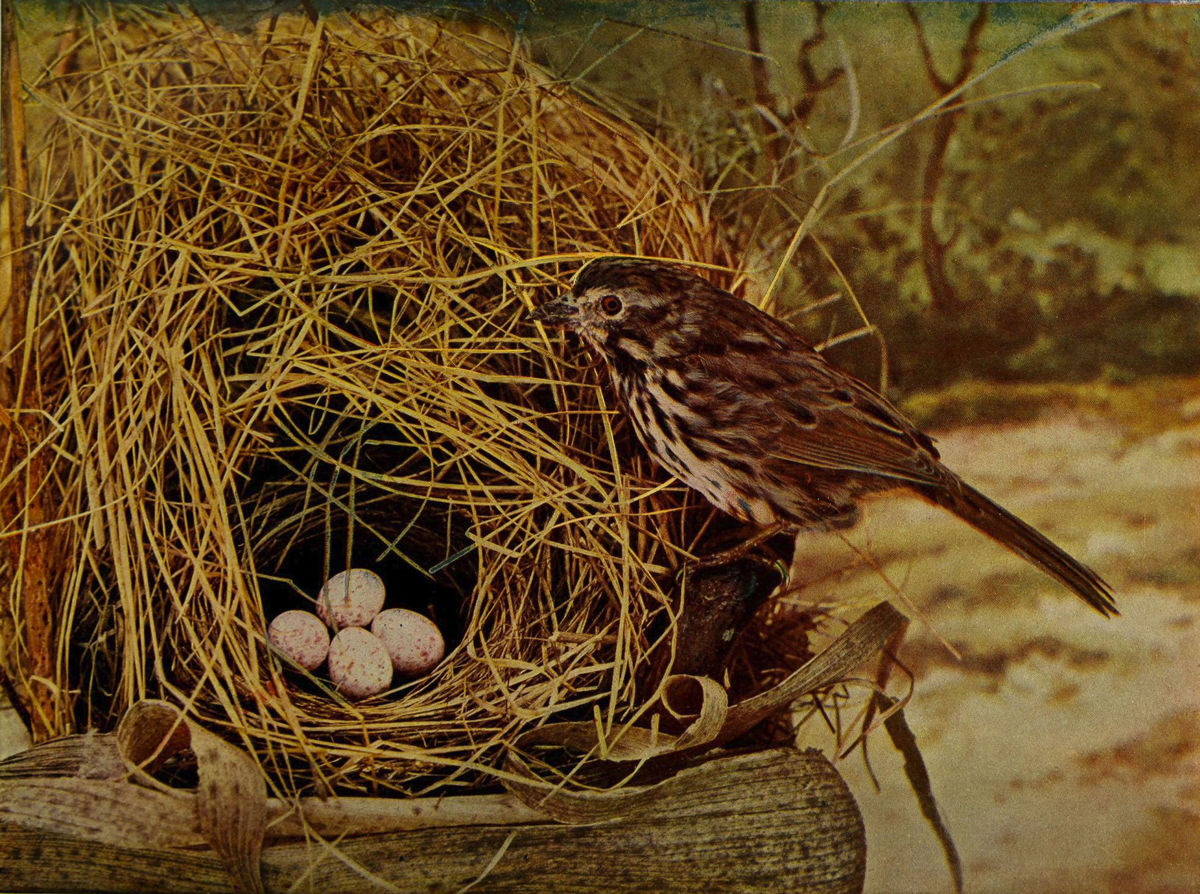 Melospiza melodia (Song Sparrow)